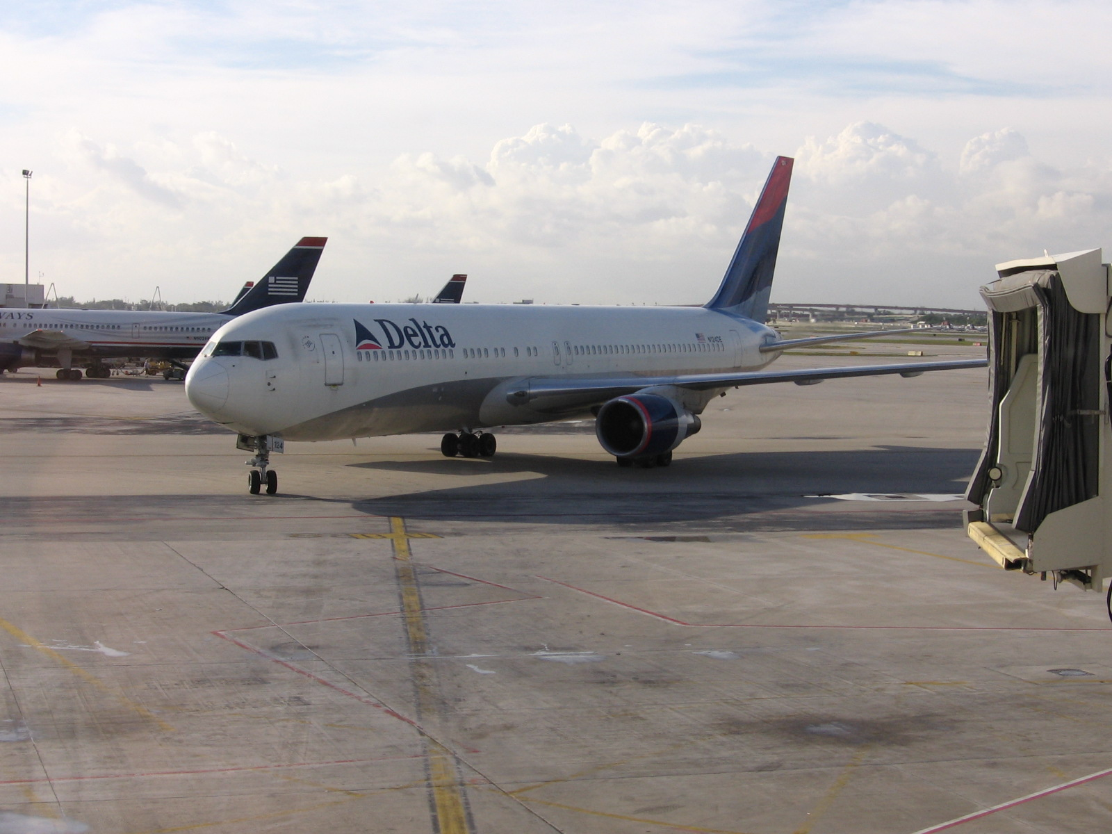 Delta Air Lines Boeing 767-300ER N124DE at Fort Lauderdale / Hollywood International Airport, Florida (FLL)